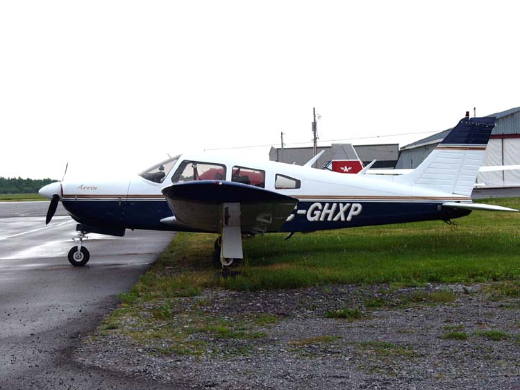 Piper PA-28R-200 Cherokee Arrow at Carp Airport, Ontario, June 2005